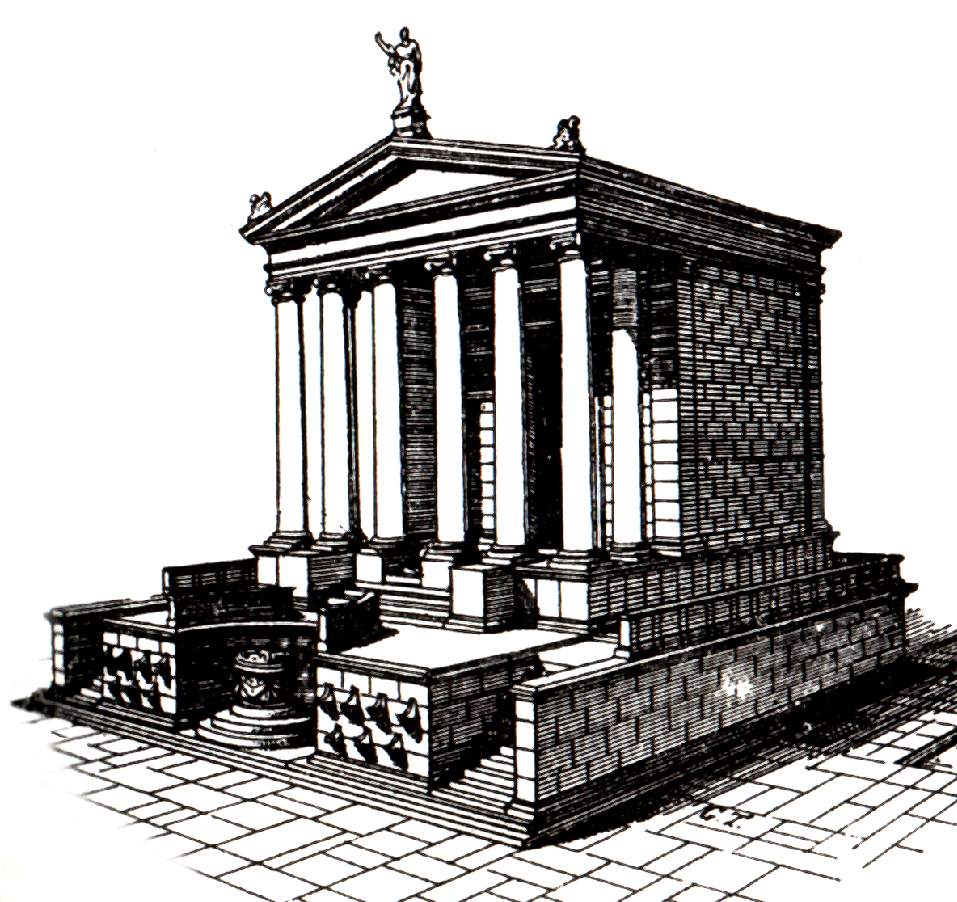 Famous reconstruction of the Temple of Divus Iulius according to the interpretation of the archaeological area by Christian Hülsen, Bretschneider und Regenberg, 1904.